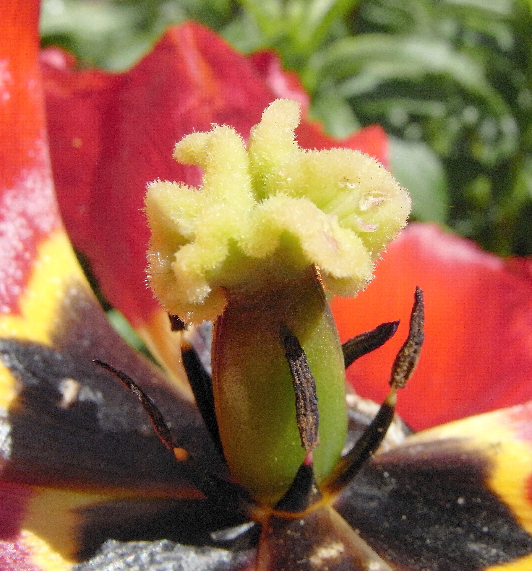 Tulipa Inside